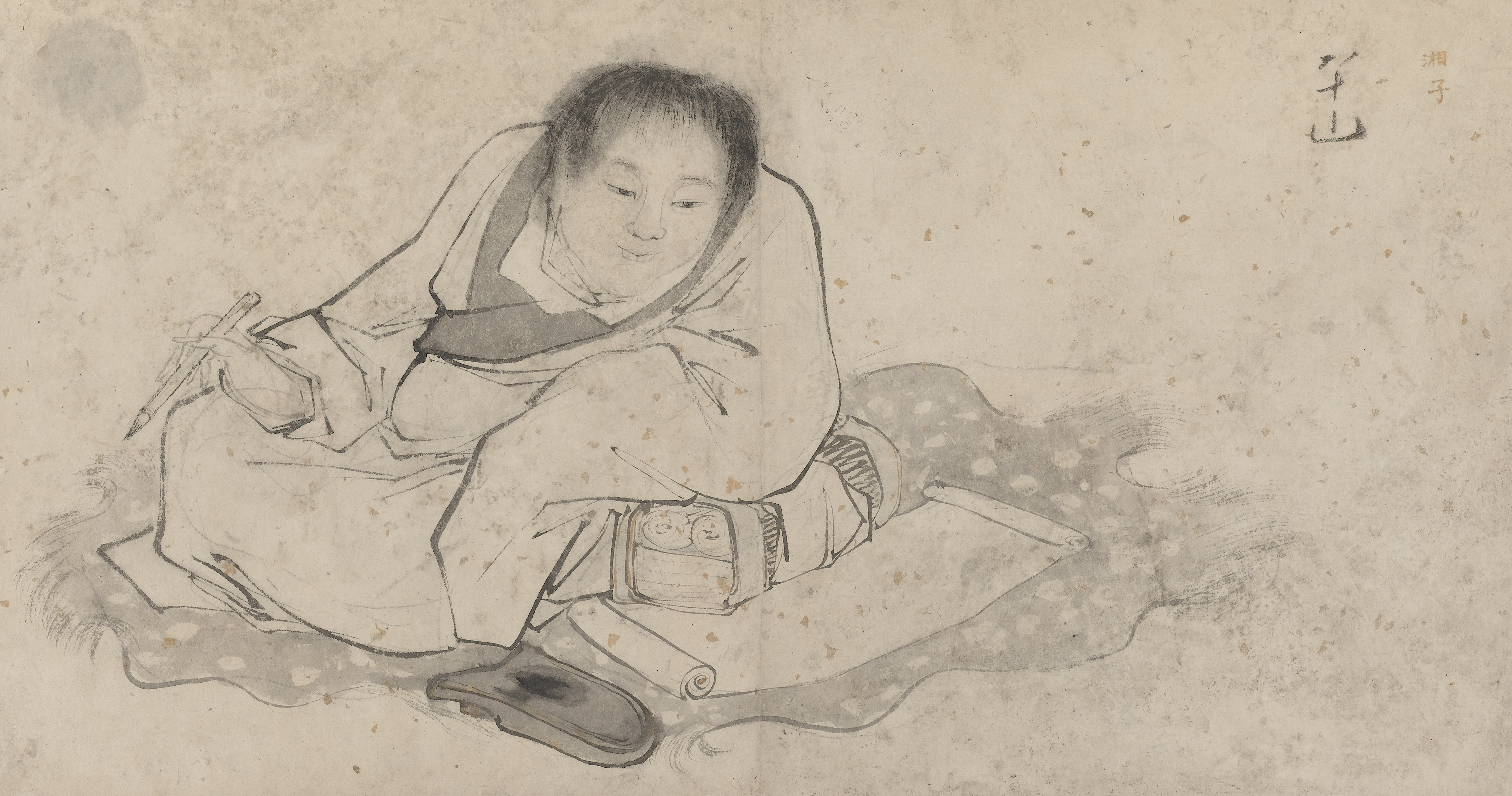 Depiction of the Daoist immortal Han Xiangzi